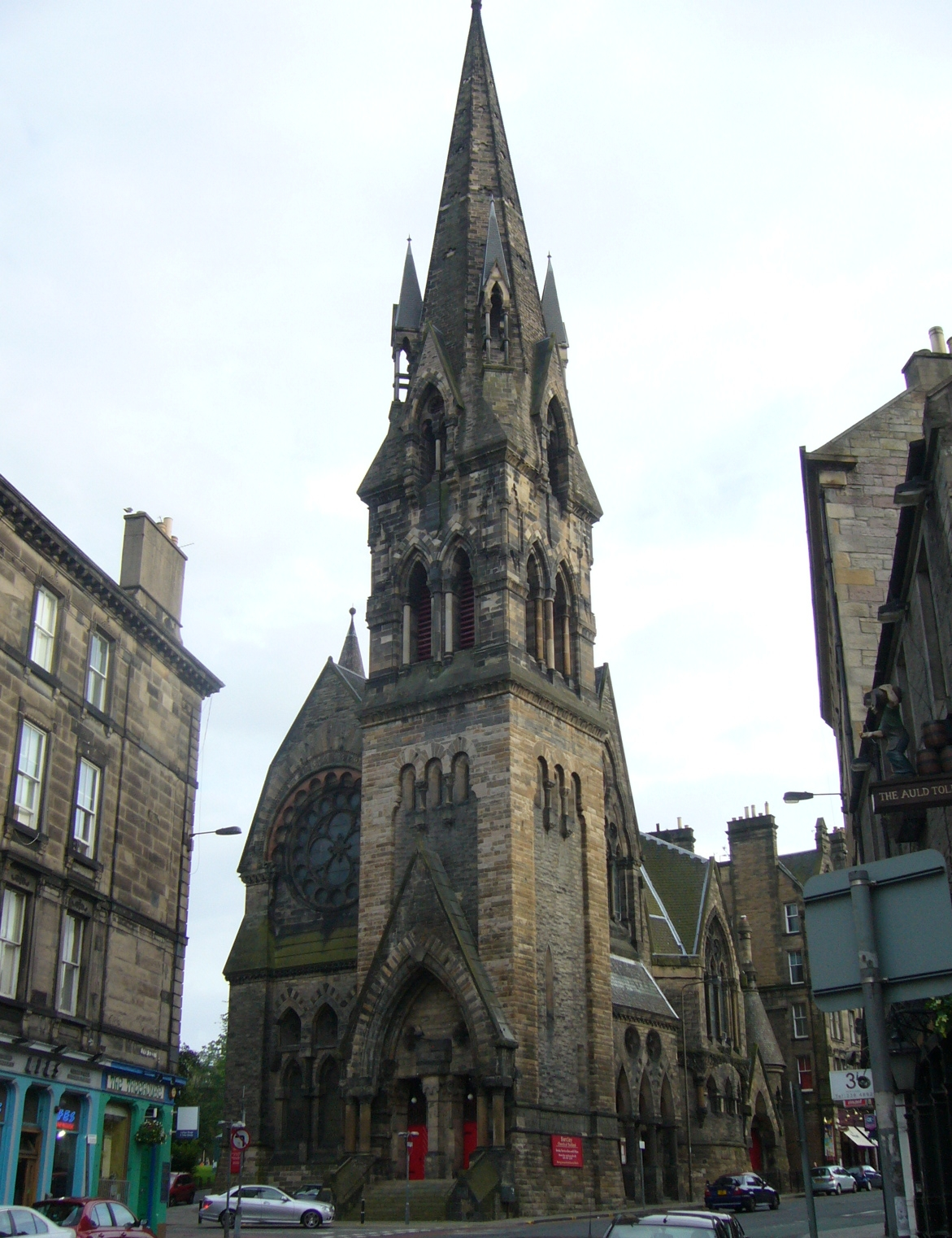 Barclay Church by F T Pilkington, Leven Street Edinburgh